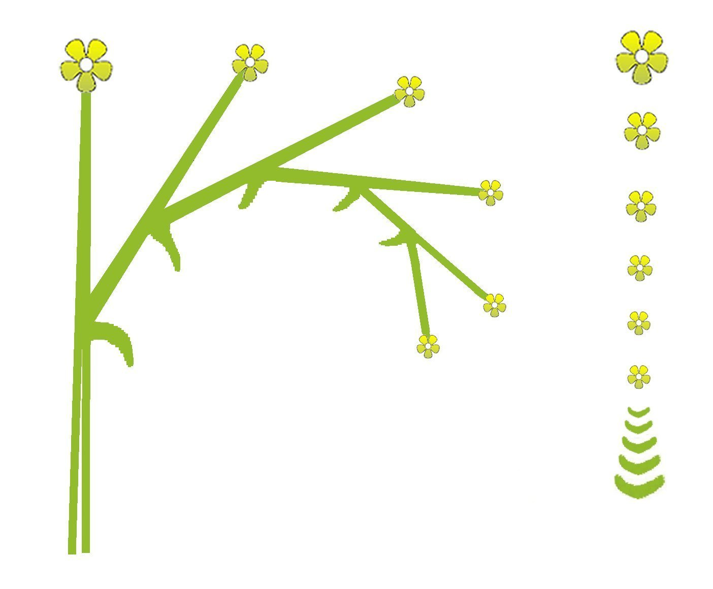 drepanium